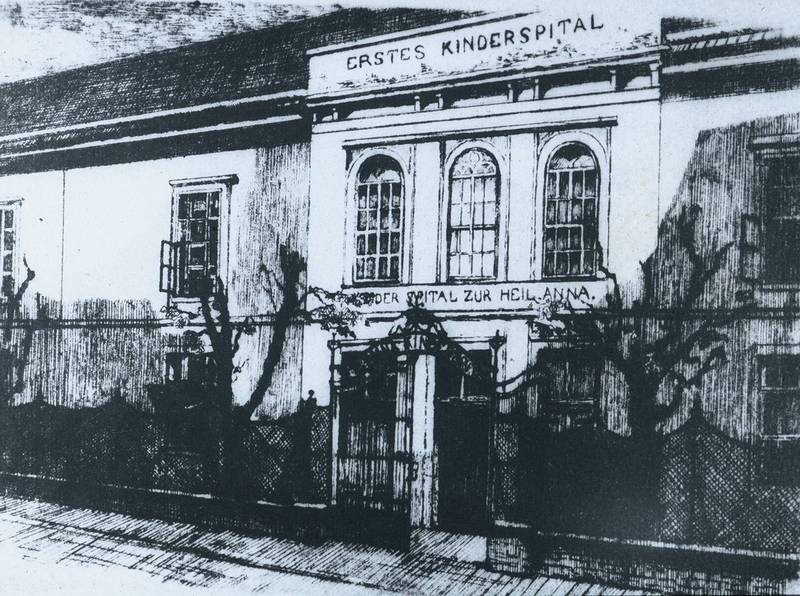 1850-1911 The St. Anna Children's Hospital had the function of University Clinic for Paediatrics.